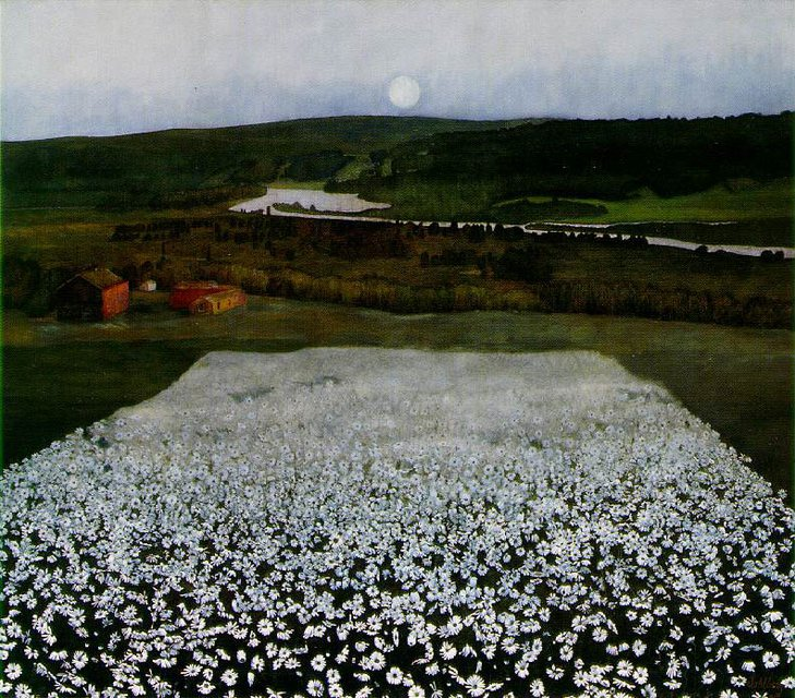 Norwegian: Blomstereng nordpåFlower Meadow in the Northtitle QS:P1476,no:"Blomstereng nordpå" label QS:Lno,"Blomstereng nordpå" label QS:Len,"Flower Meadow in the North"